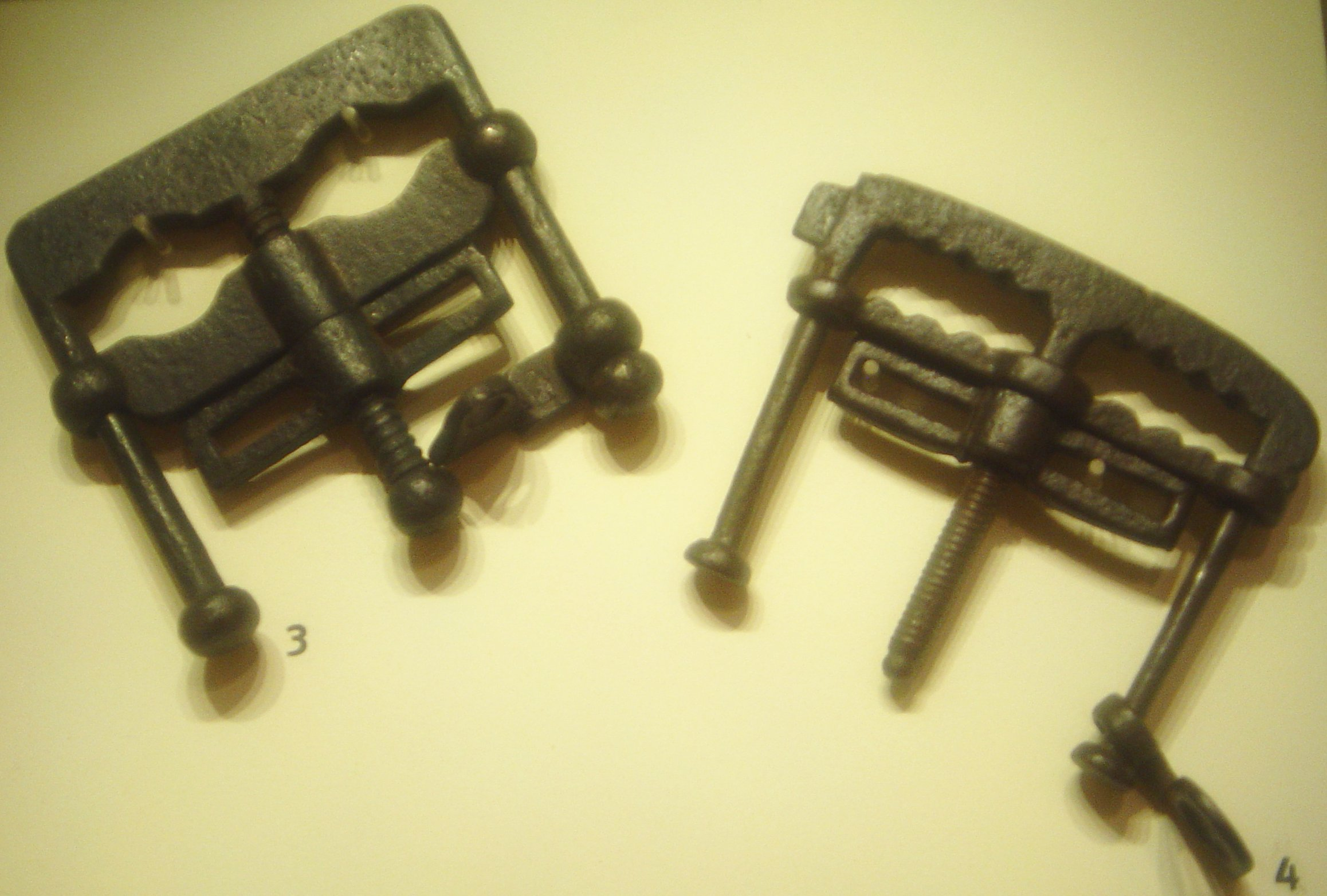 thumbscrews Photo taken at the National Museum of Scotland, Edinburgh